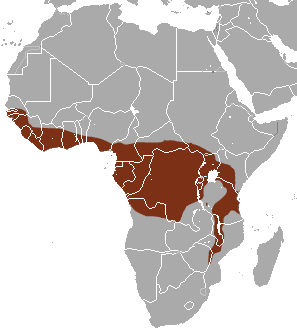 African Palm Civet (Nandinia binotata) range, with colonial borders added